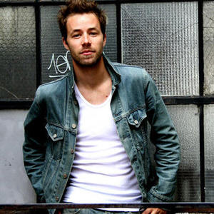 Roz Bell promo pic